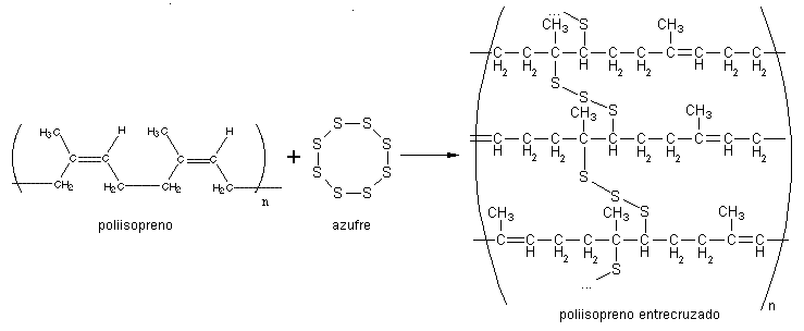 Vulcanisation process (in spanish).